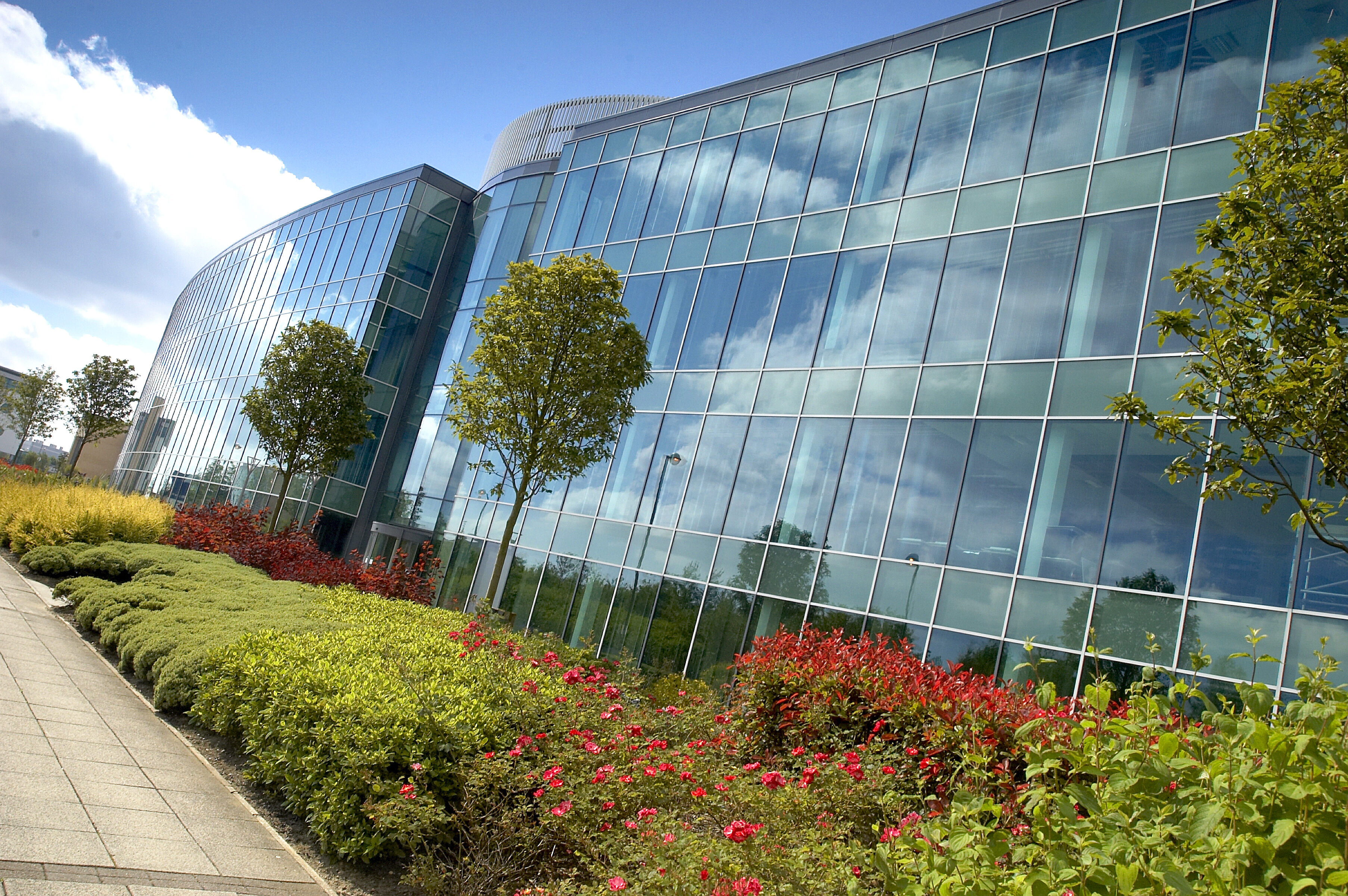 Council HQ based at Cobalt Business Park in North Tyneside